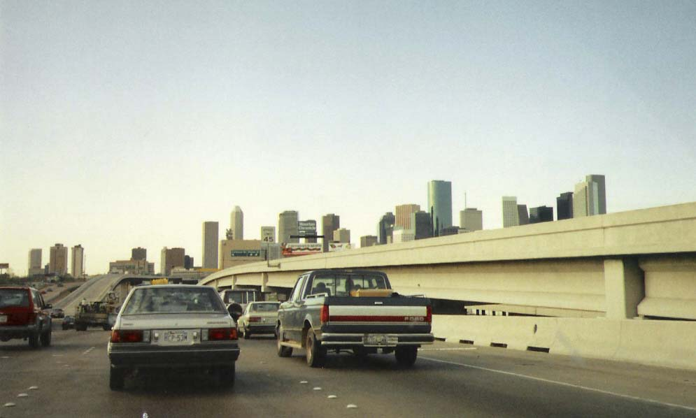 Houston, TX skyline from freeway